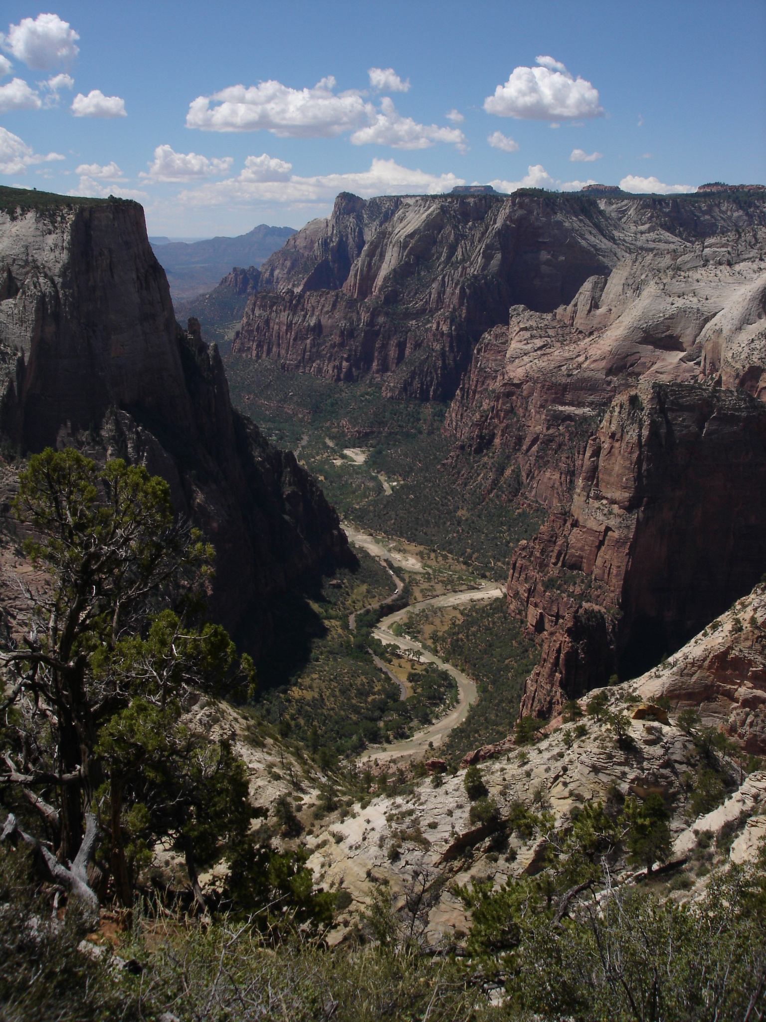 View into the Canyon from the trail leading to Observation Point